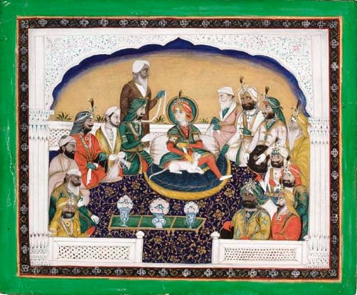 Durbar of Maharaja Dalip Singh, c 1845, Probably by Hasan-al-din, Sikh School, Lahore circa 1845. Gouache heightened with gold on paper, seated on a terrace surrounded by prominent nobles, his dog reclining next to him, low table supporting three blue and white vases filled with pink roses in the foreground, all within a peitra dura architectural setting, flowerhead and green borders, mounted, framed and glazed, 19 x 25 cm.